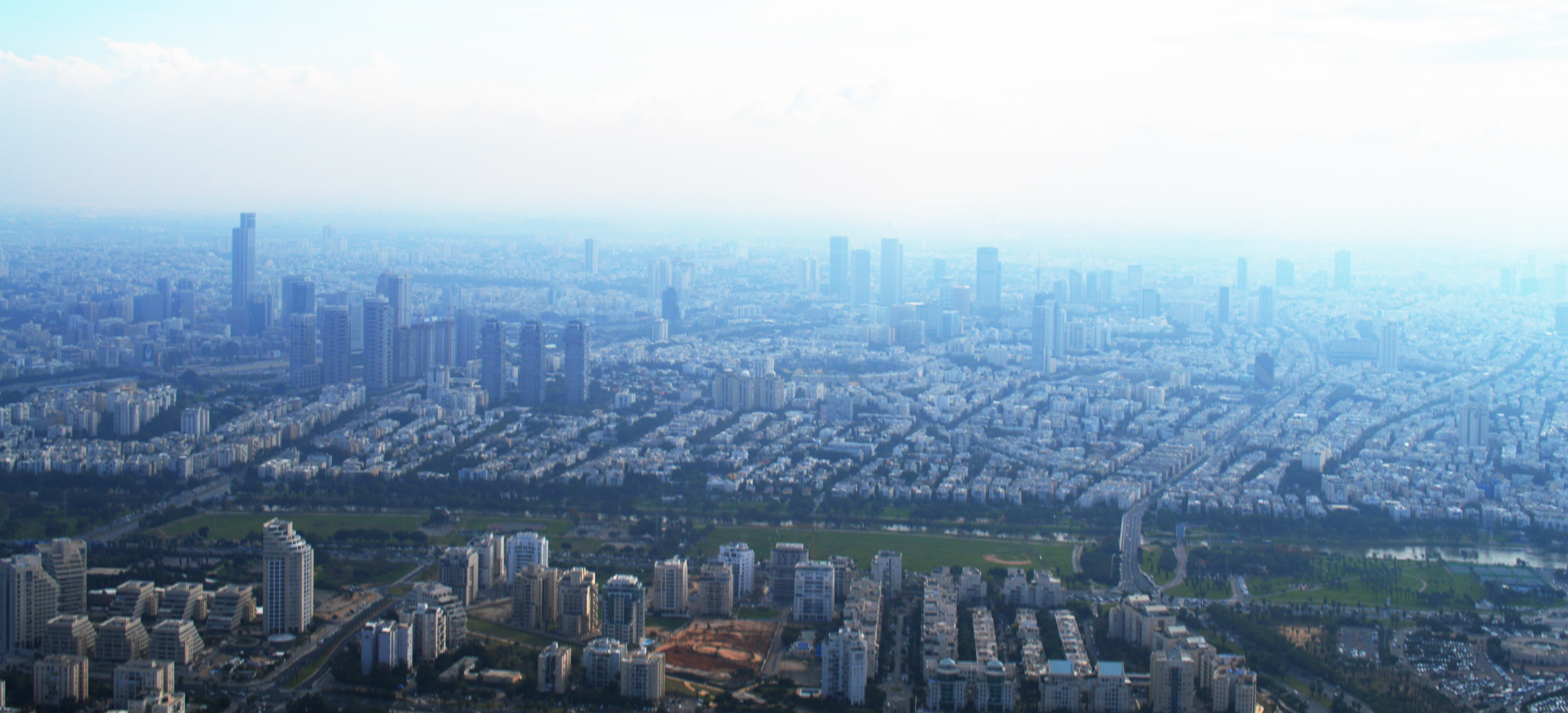 Yarkon River in Tel Aviv Aerial View